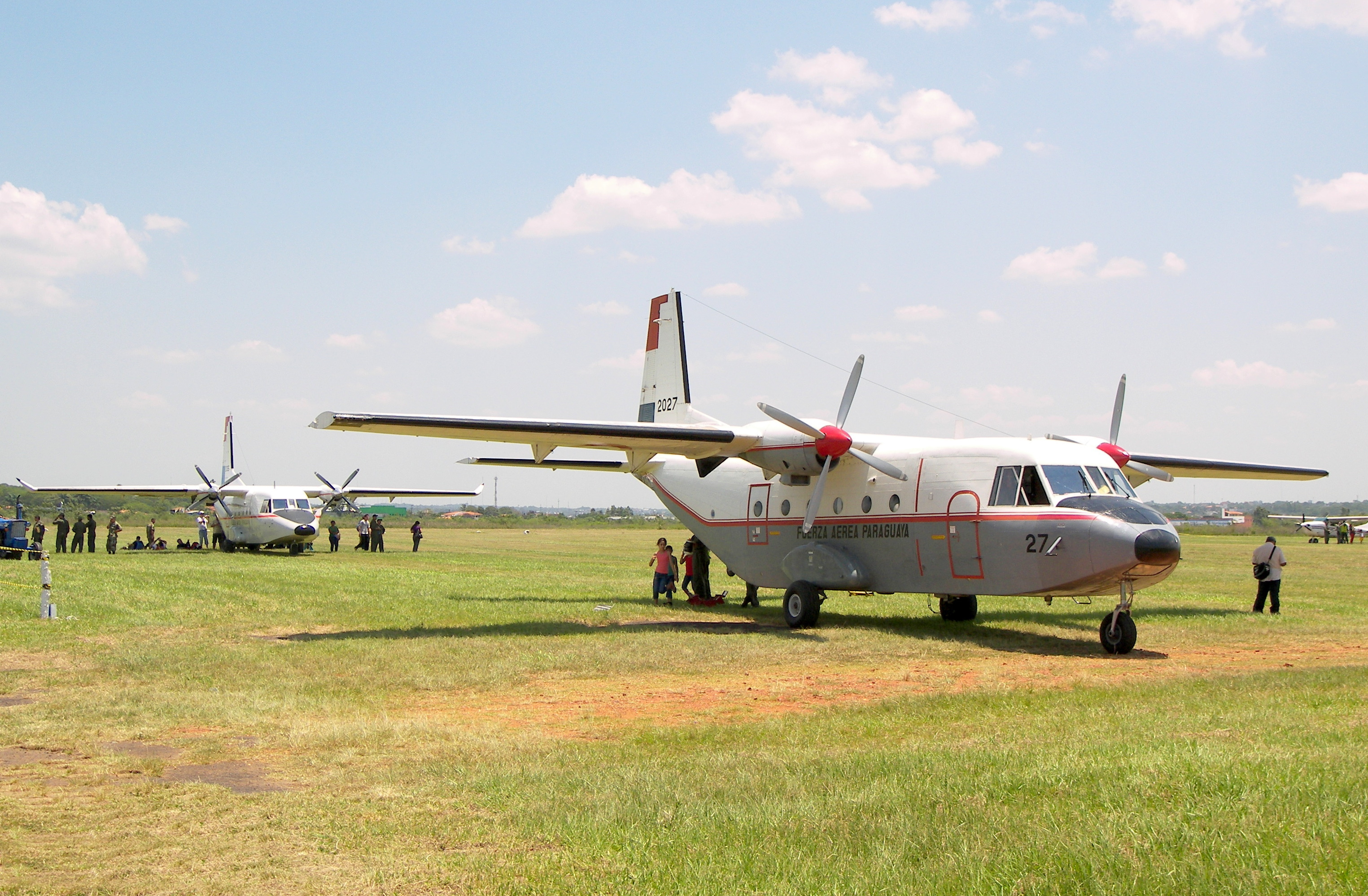 Aviones de la Fuerza Aérea Paraguaya